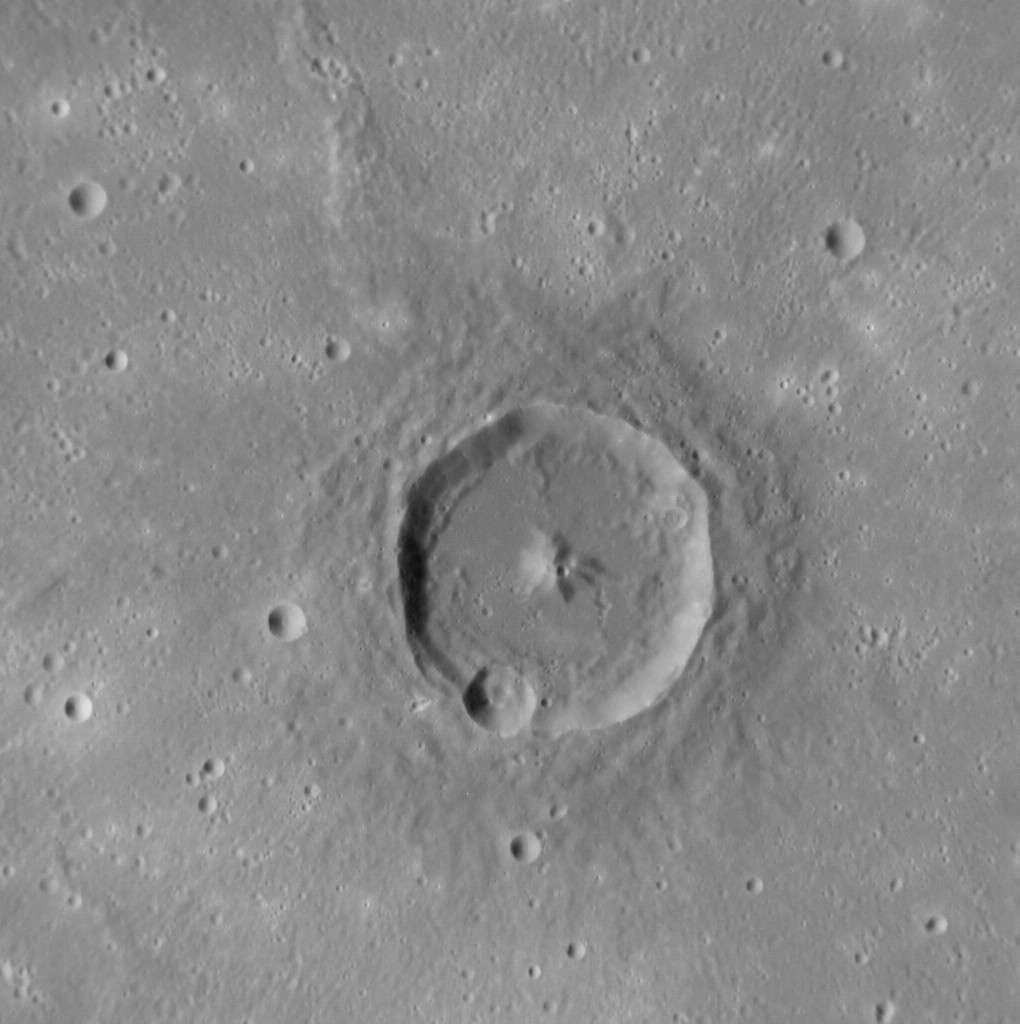 Bellini crater on Mercury, near the center of the larger Rembrandt crater. MESSENGER Narrow Angle Camera. North is in upper left. Width is approximately 134 km. Emission Angle: 1.7 Incidence Angle: 58.2 Latitude: -33.5 Longitude: 87.2 Phase Angle: 56.5